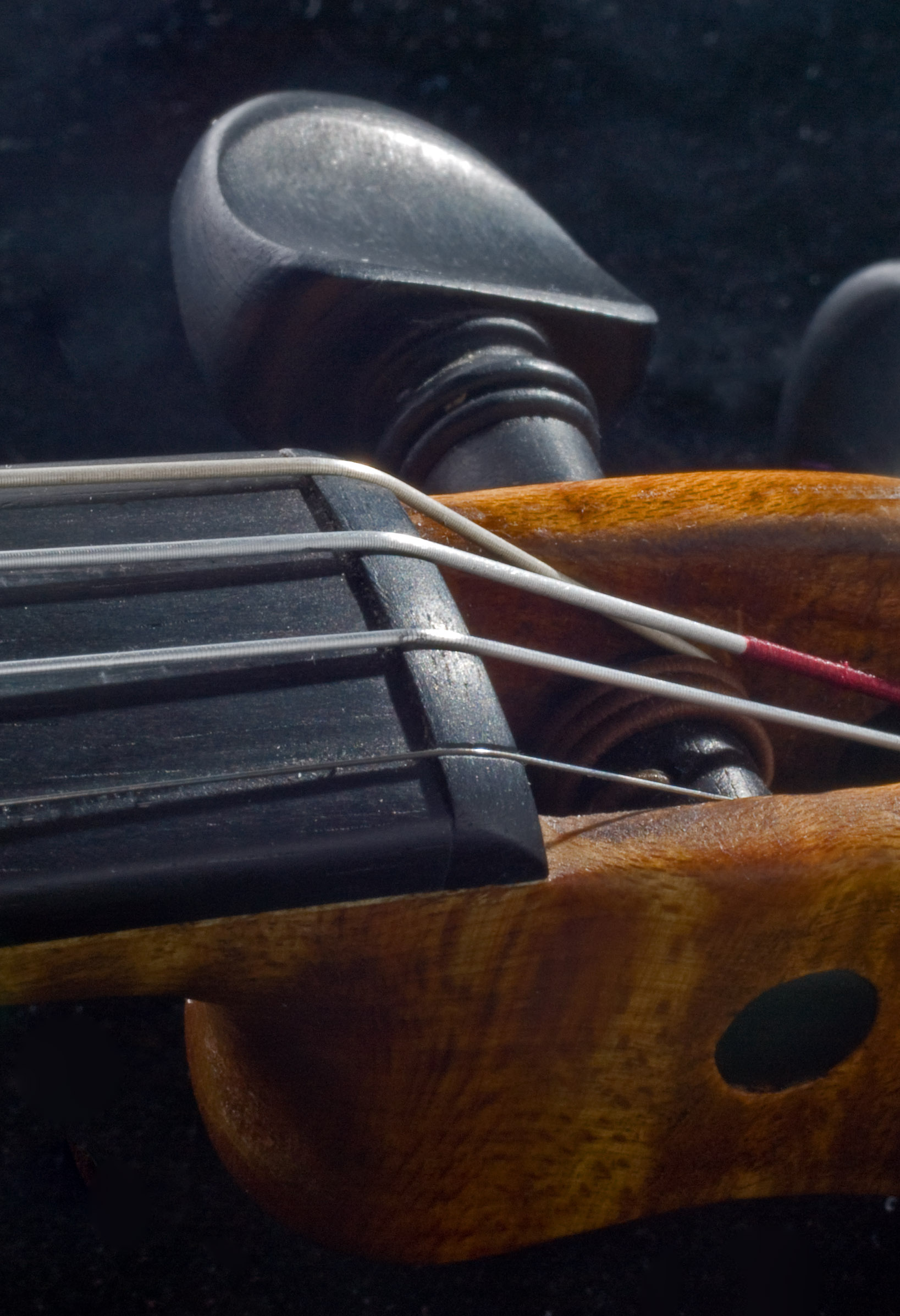 Nut of a violin